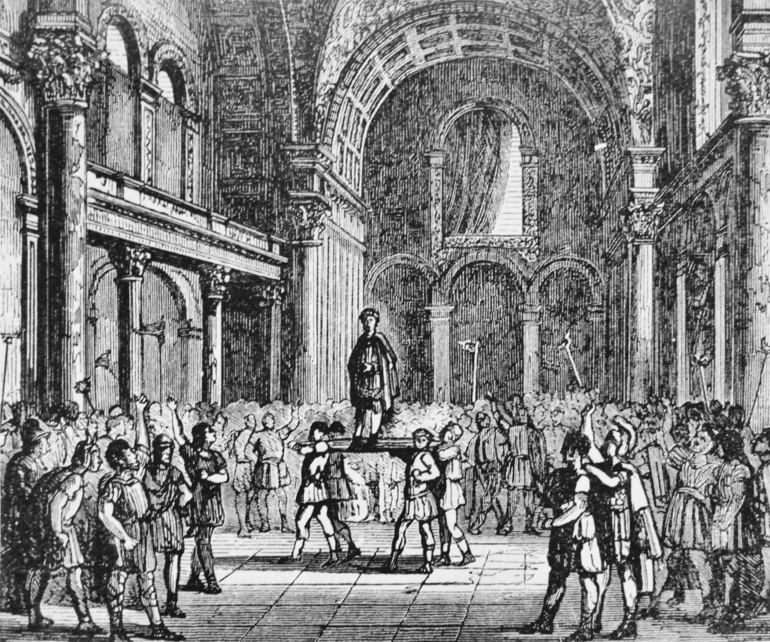 Julian Crowned Emperor in Cluny in February 360